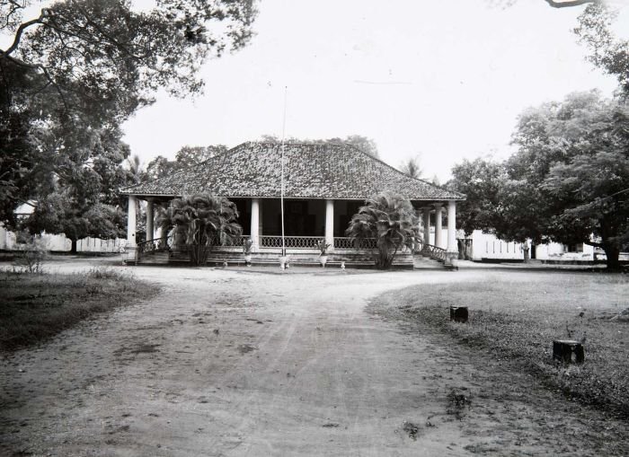 House near Mauk